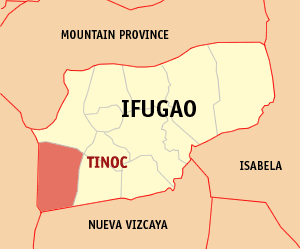 Map of Ifugao showing the location of Tinoc